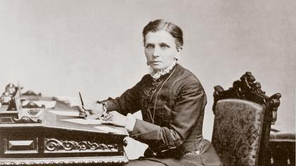 a young Emmeline B. Wells writing at a desk